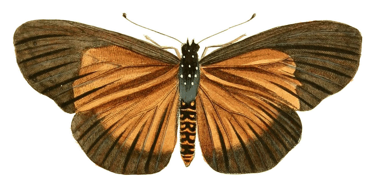 Extract from Plate XVIII. ACRÆA UMBRA (= Bematistes umbra).